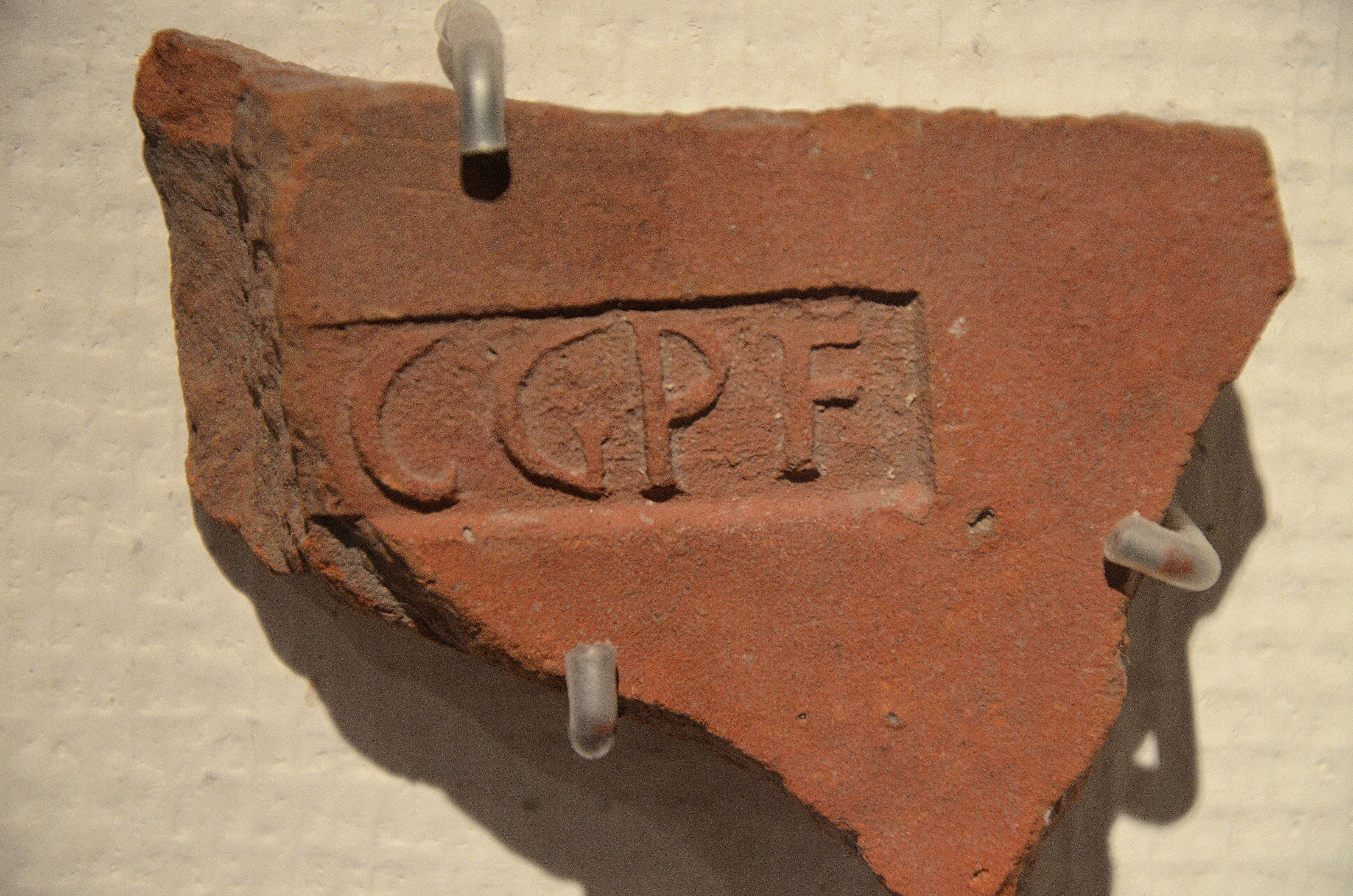 In 89 AD the fleet was honored by Domitian and got the name PIA FIDELIS like the Legion XXII. The main service was patroling on the Rhine and later to transport goods for the Legions. Inscription: CG PF (Classis Germanica Pia Fidelis).